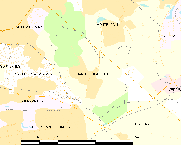 Map of French municipality Chanteloup-en-Brie